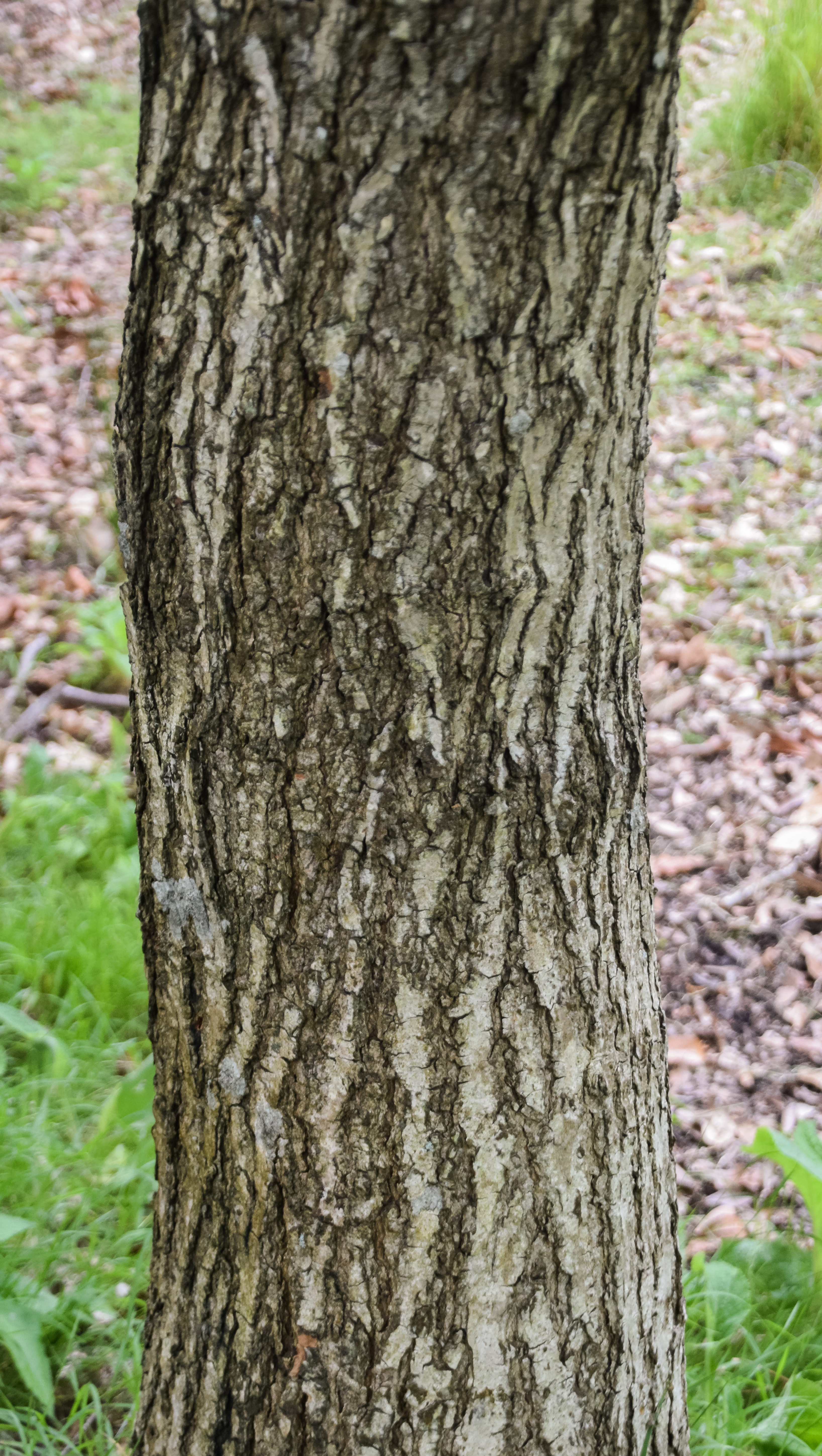 Bark of Acer truncatum in Hackfalls Arboretum, Gisborne Region, New Zealand